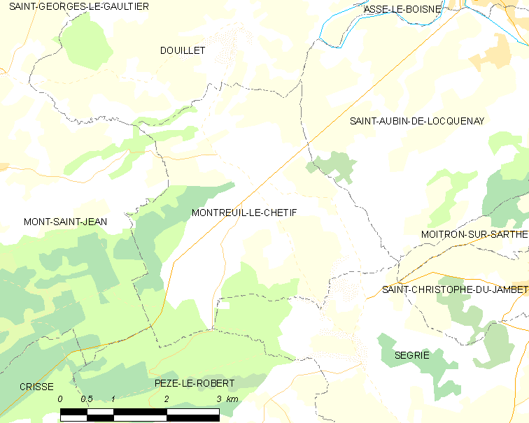 Map of French municipality